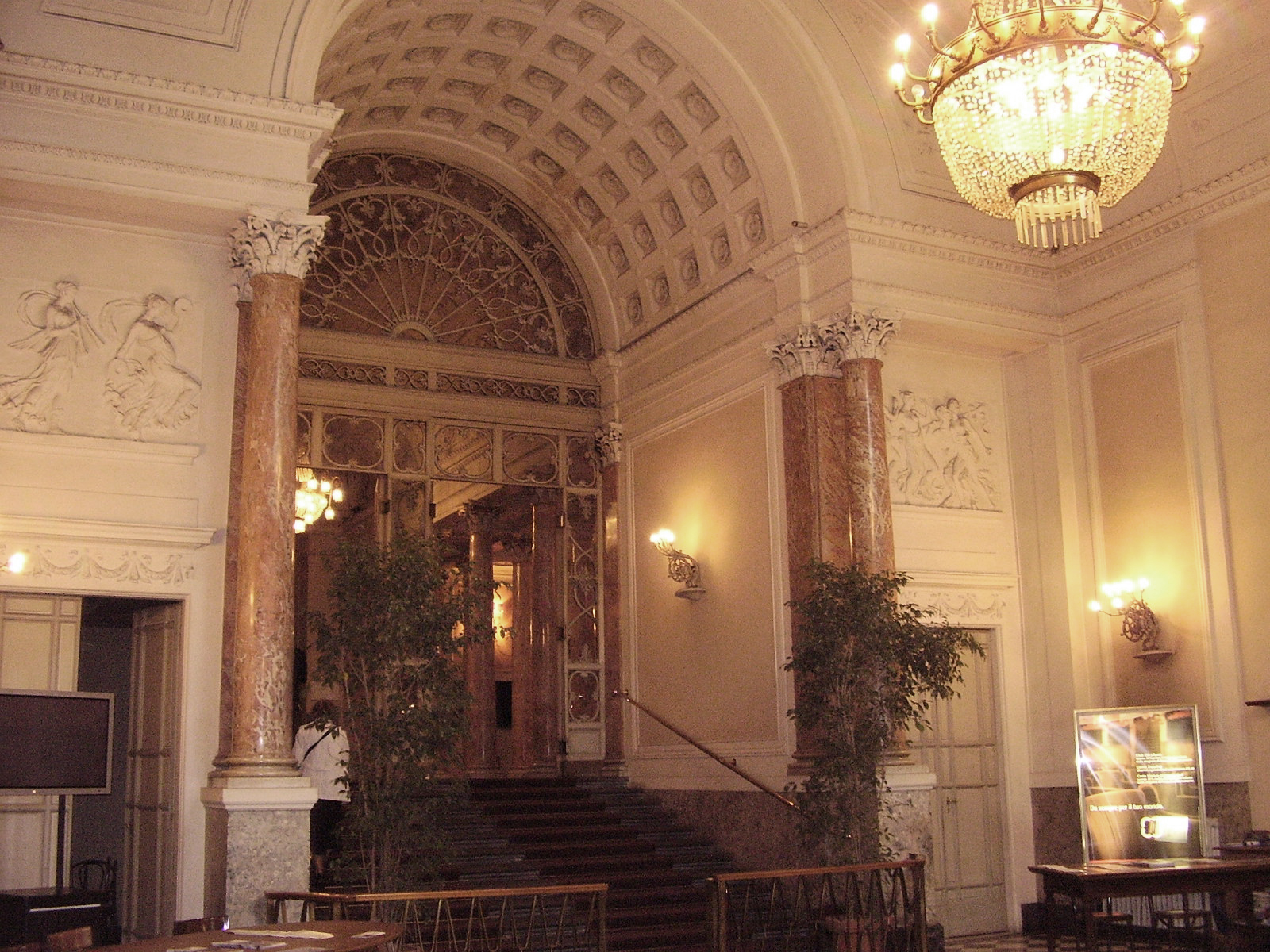 Teatro alla Pergola, Firenze theatre, inside view, in Florence, Italy